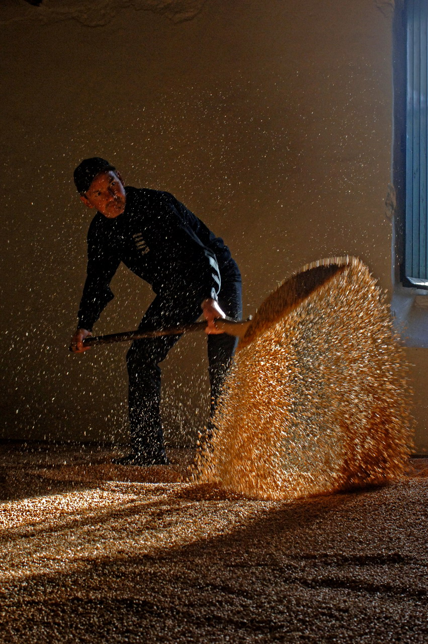 An employee of the Springbank distillery turning the barley on the floor malting